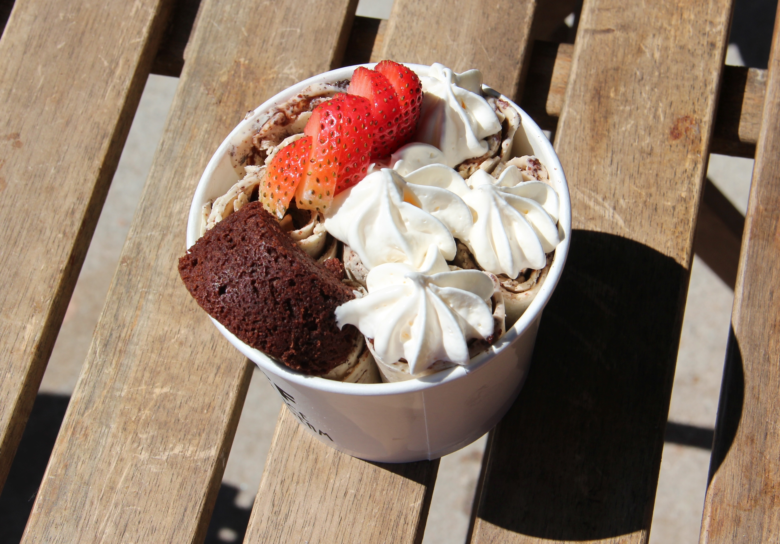 Stir-fried ice cream at a Buford Highway restaurant